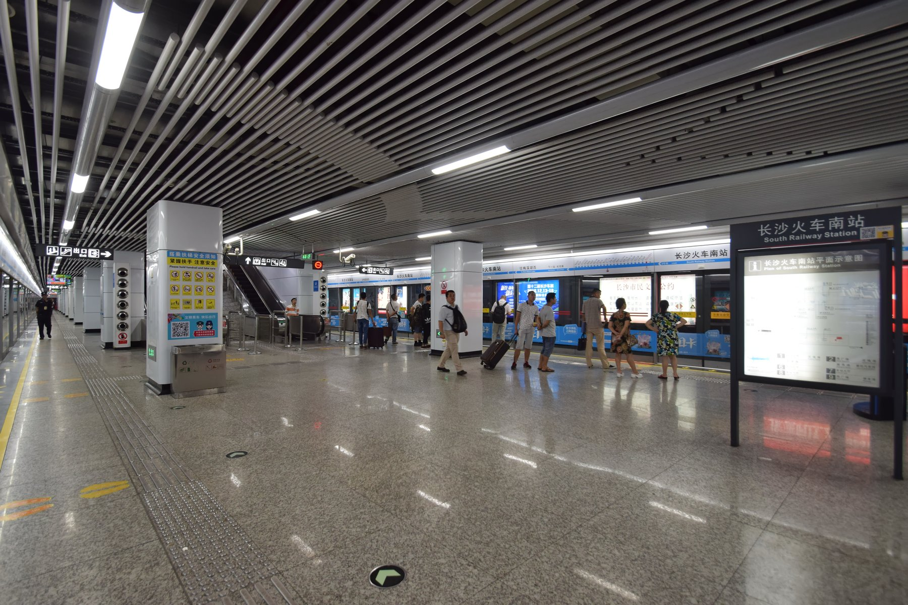 Line 2 Platform of South Railway Station, Changsha Metro